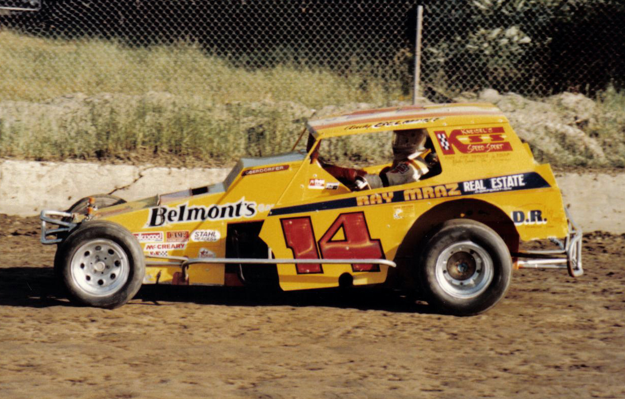 Andy Belmont racing his #14 at Orange County Fair Speedway in the early 80's. I remember Belmont having a quite spectacular crash at Nazareth around 1976.